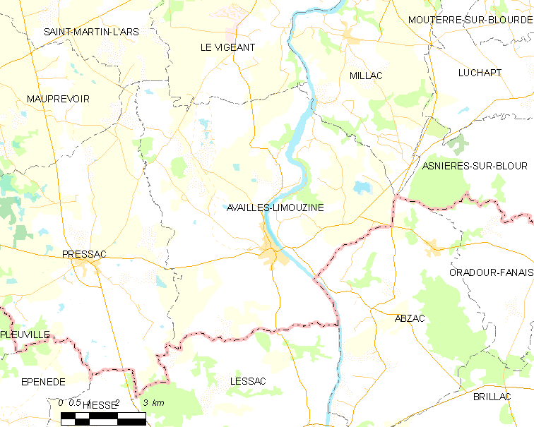 Map of French municipality Availles-Limouzine